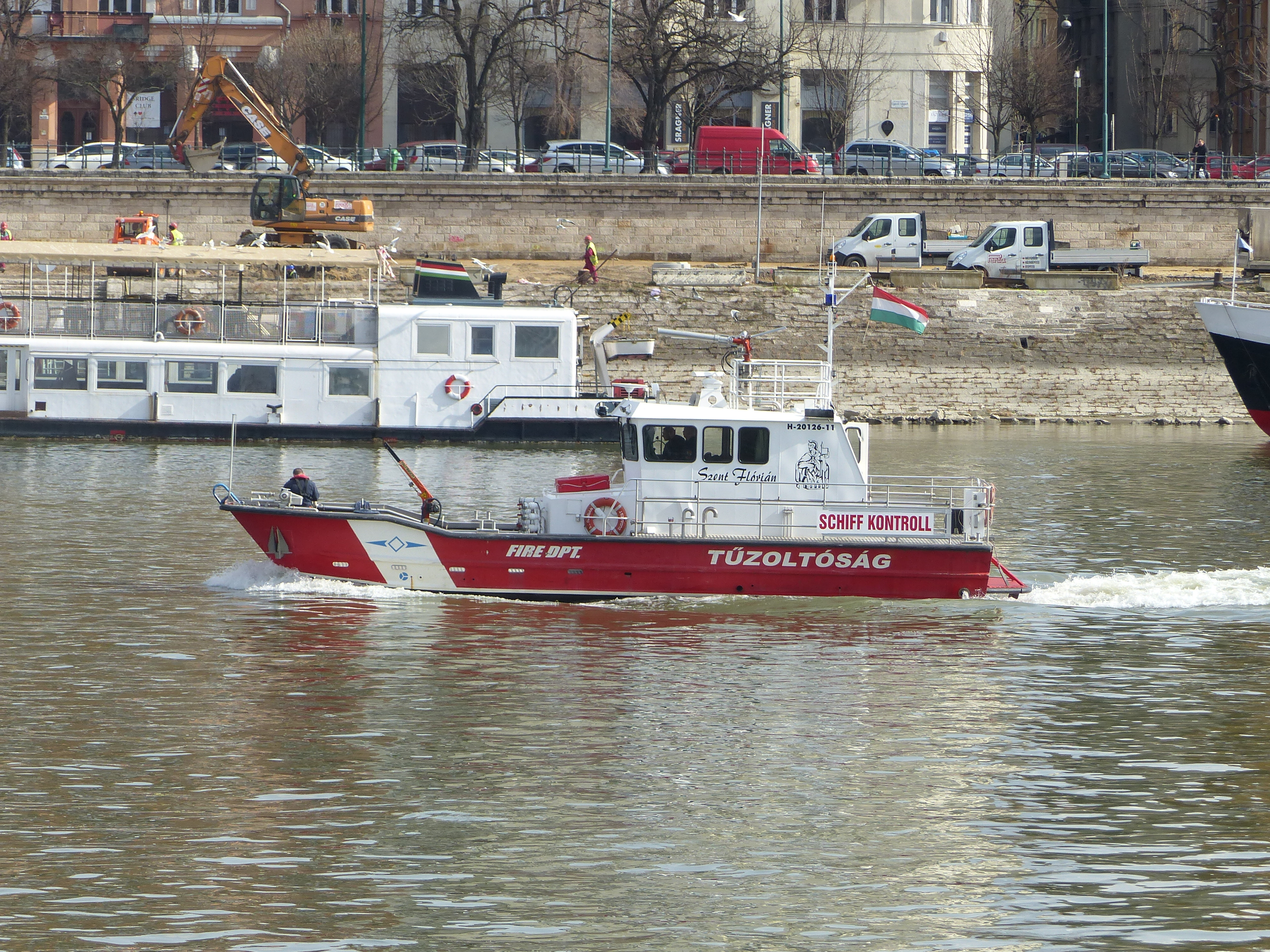 Szent Flórián. Right in the heart of the city. Taken on the 7th of March, 2017. By the side of Margaret Island, Budapest. You can get there by Margaret Bridge or by Árpád Bridge, the place is full of people jogging, riding bikes and playing different sports.